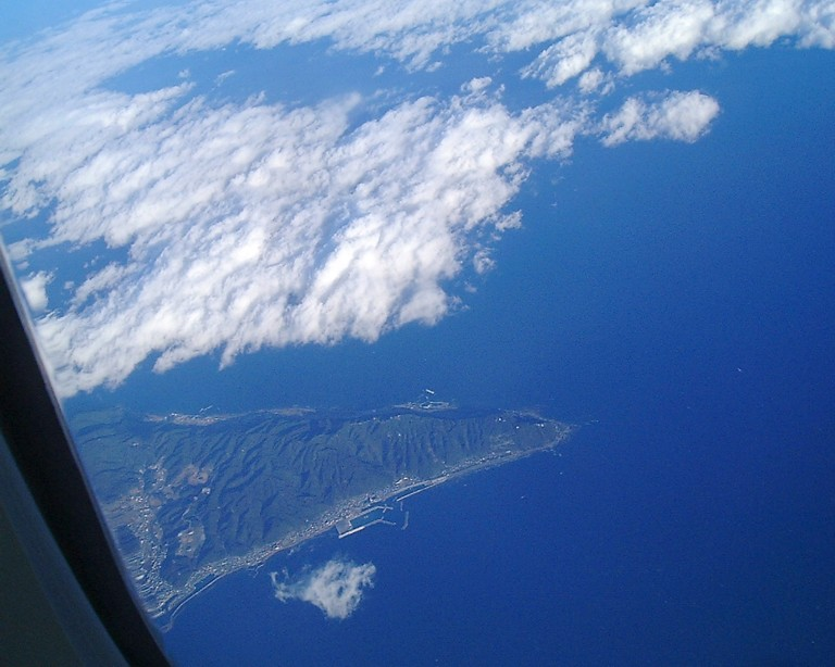 Cape Muroto